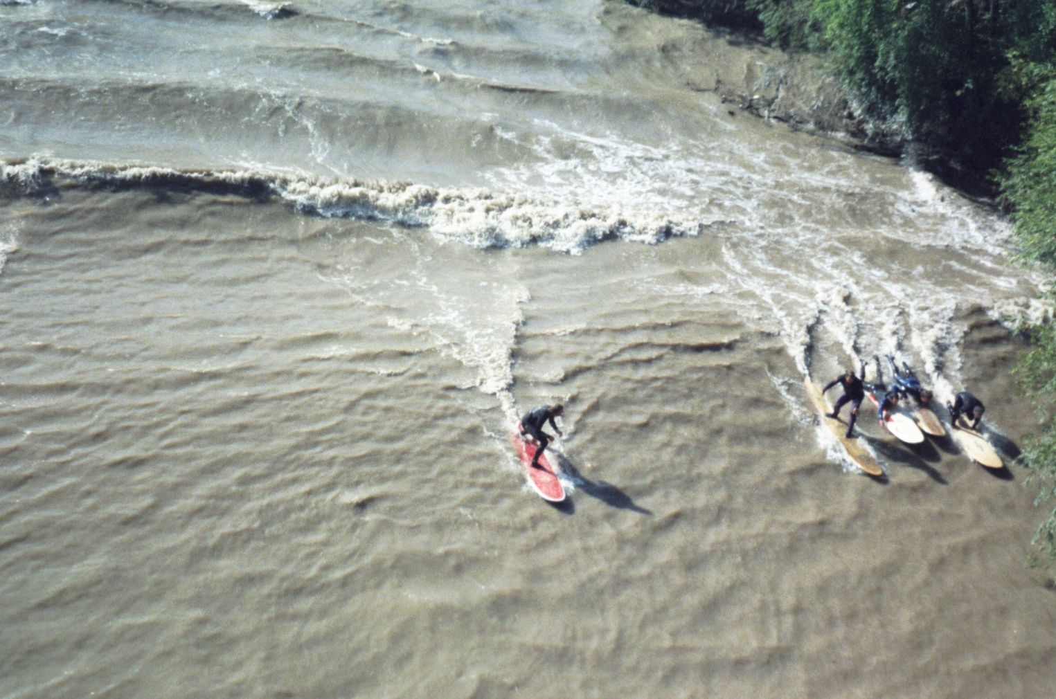 Here are some crazy people surfing the front wave of the Severn Bore. I totally recommend visiting the bore. It is THE MOST FUN to 'chase' this wave as it travels up river, for over an hour, through the countryside.